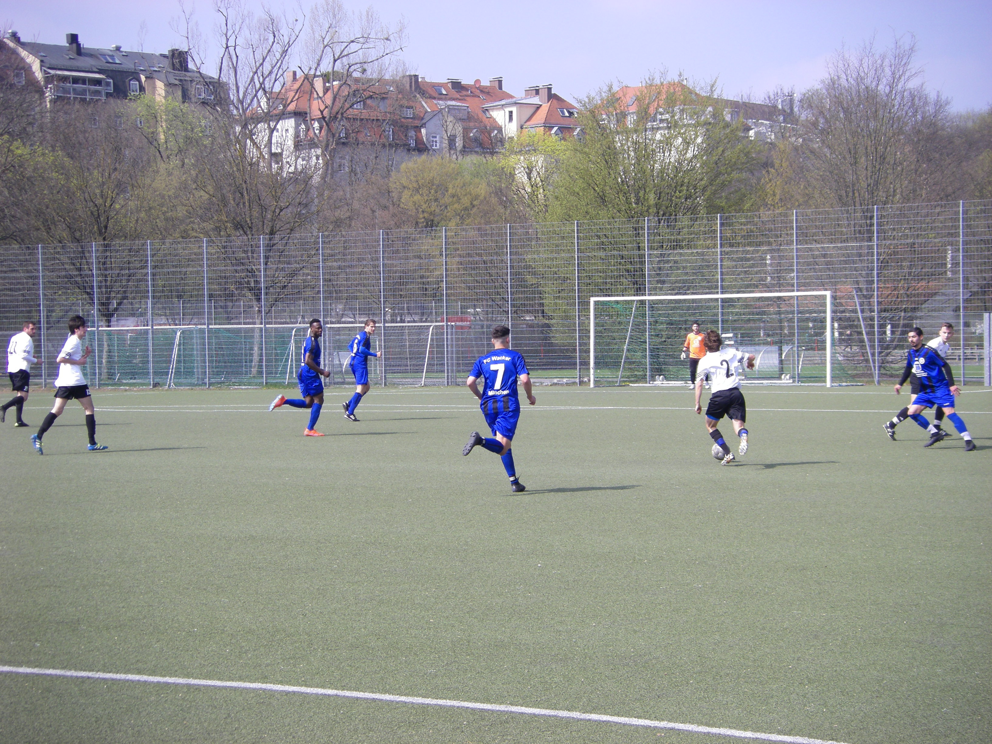 Scene of the traditional Munich derby between FC Wacker and MTV 1879 in which MTV attacks the goal of Wacker. The match has been played on Sunday, April 7, 2019 at Bezirkssportanlage Demleitnerstraße, home of FC Wacker. Wacker was winner with the result of 5:2.